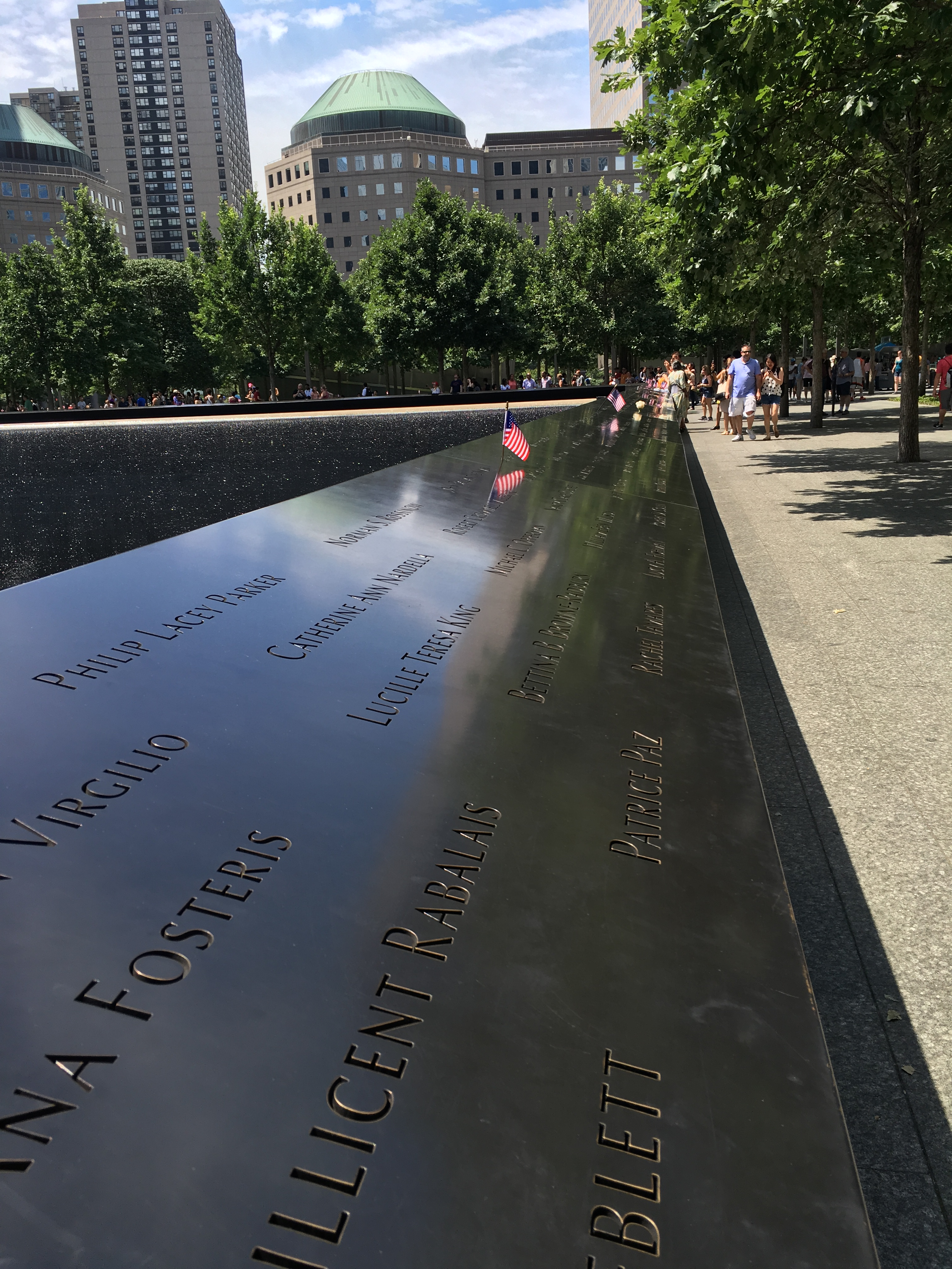 The names of the deceased people on 9/11 in the National September 11 South Pool